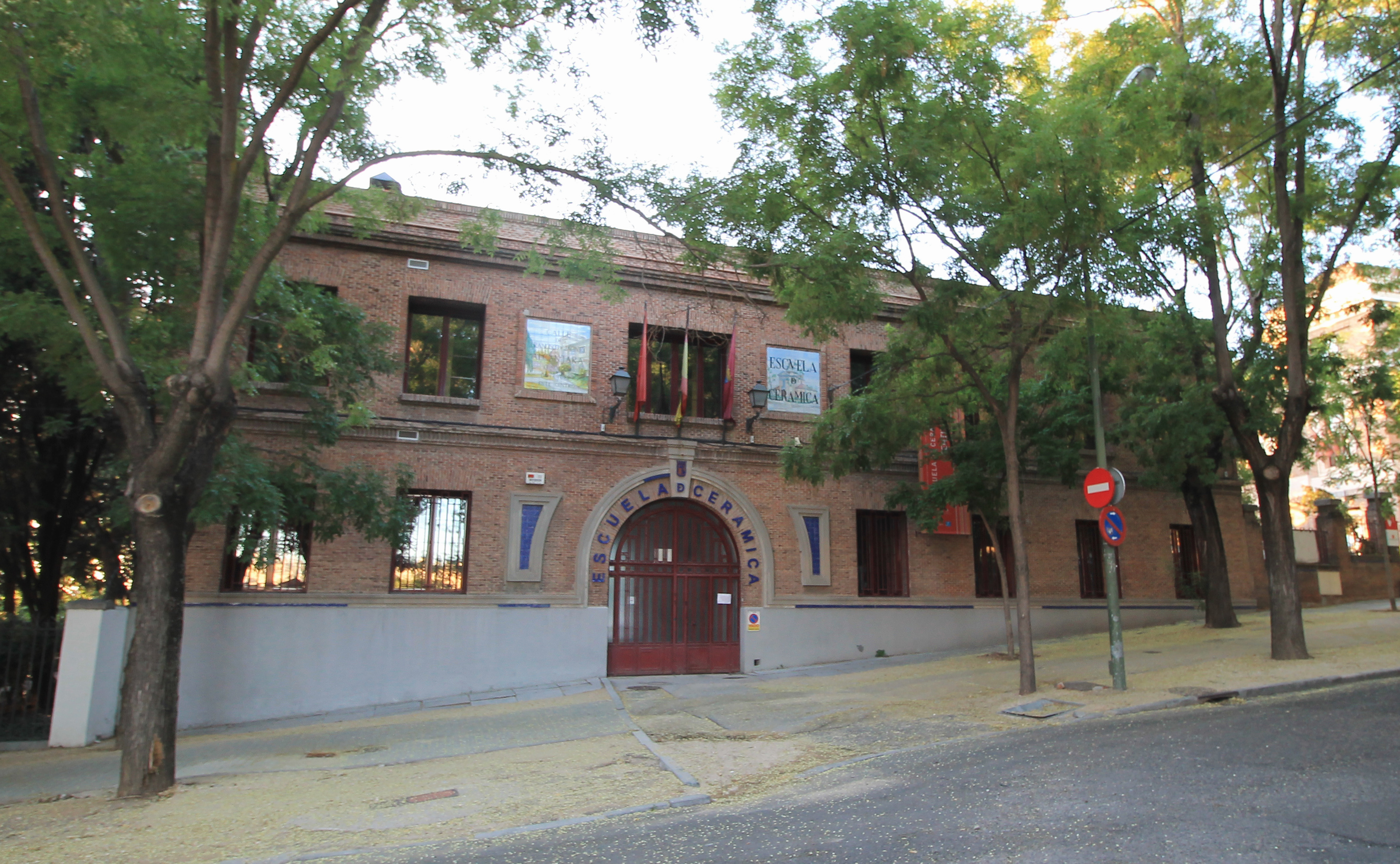 Façade of Francisco Alcántara Ceramics School in Madrid (Spain).